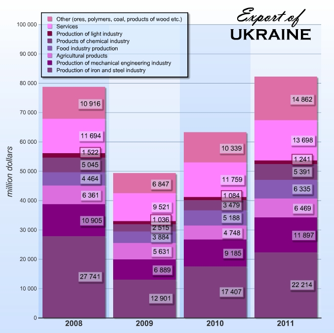 Export of Ukaine (Link)